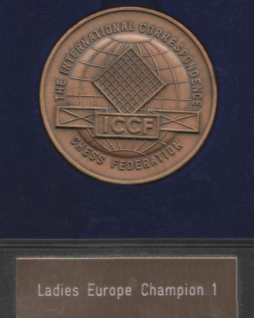 ICCF 1998 Ladies Europe Champion 1, medal for the champion Juliane Hund.